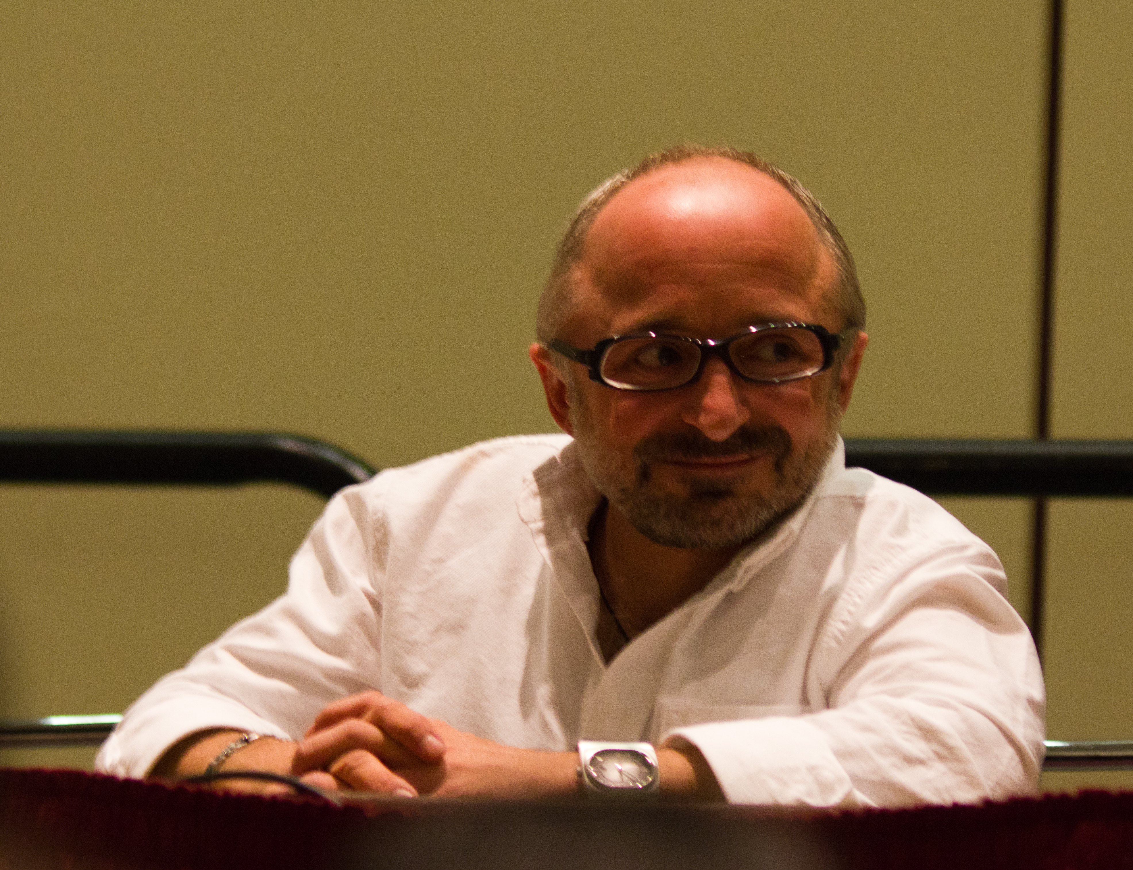 Actor Rick Howland at a Fan Expo session on the show Lost Girl